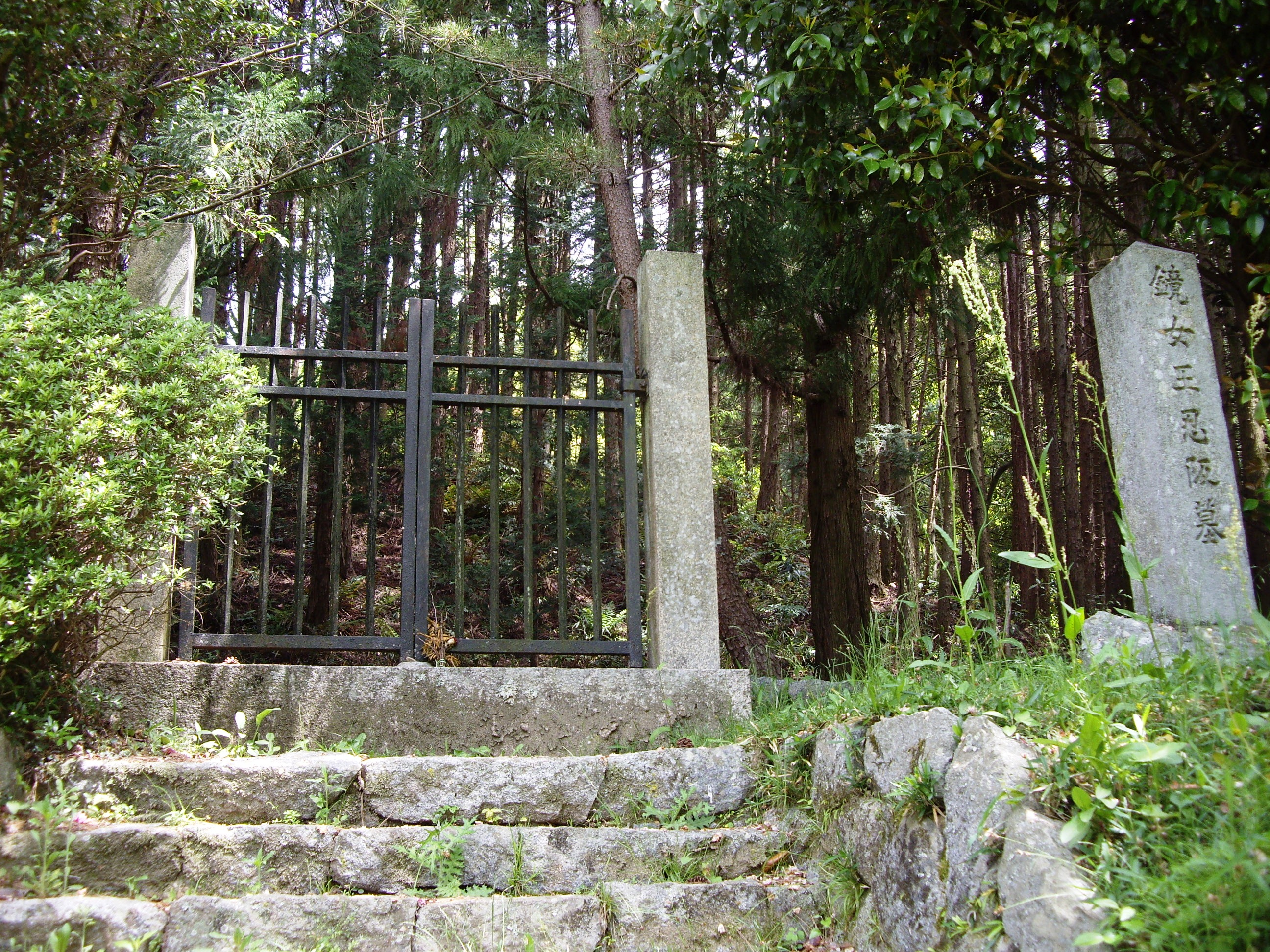 The Tomb of Kagami no Ōkimi, in Sakurai, Nara Prefecture, Japan